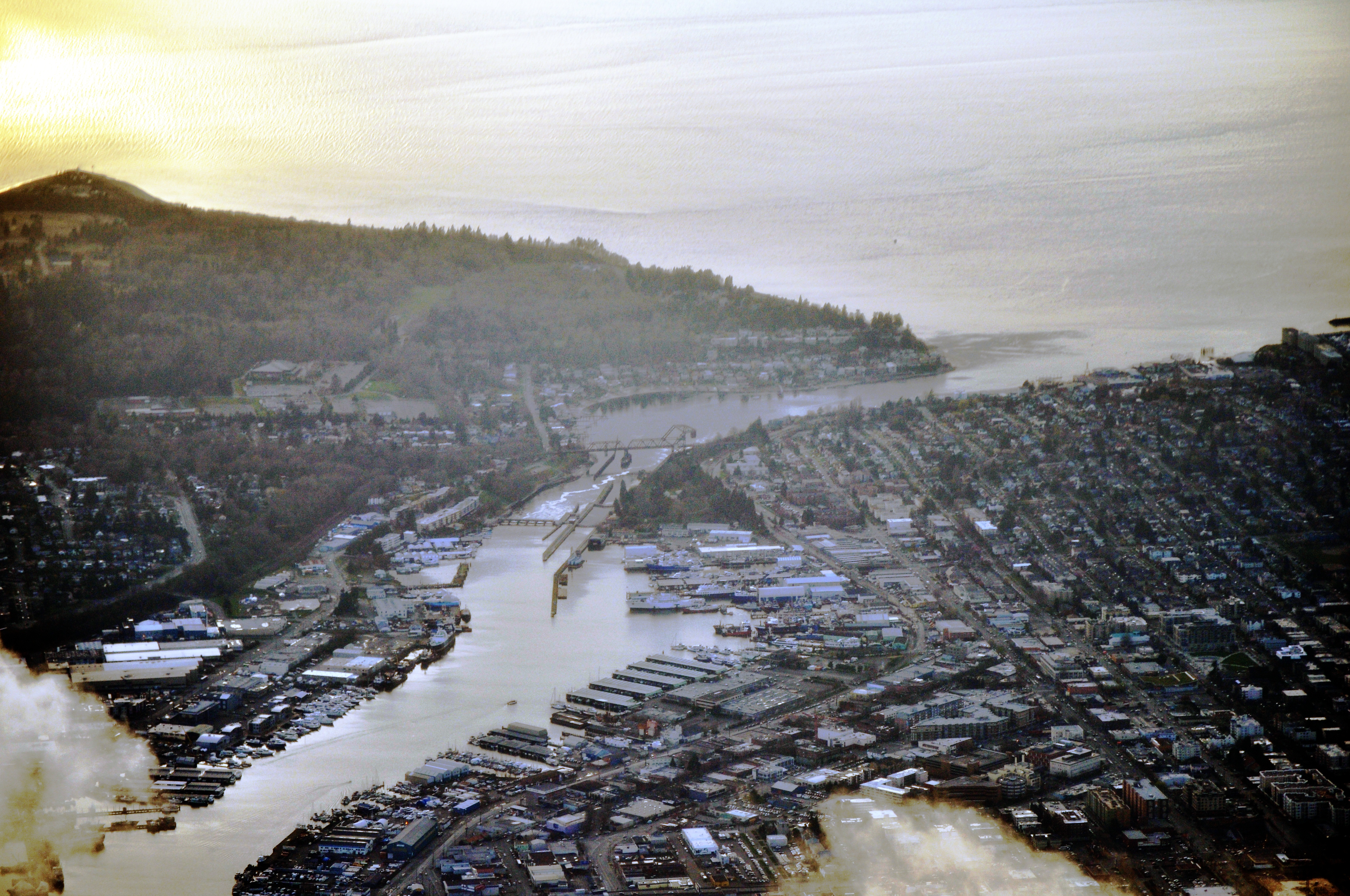 Aerial view of Salmon Bay and the Chittenden Locks, Seattle, Washington, USA.